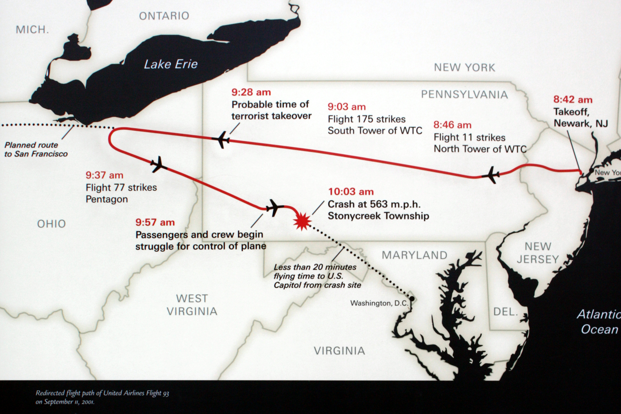 Flight 93 National Memorial, Stonycreek Township, Pennsylvania, United States, memorial sign, flight path